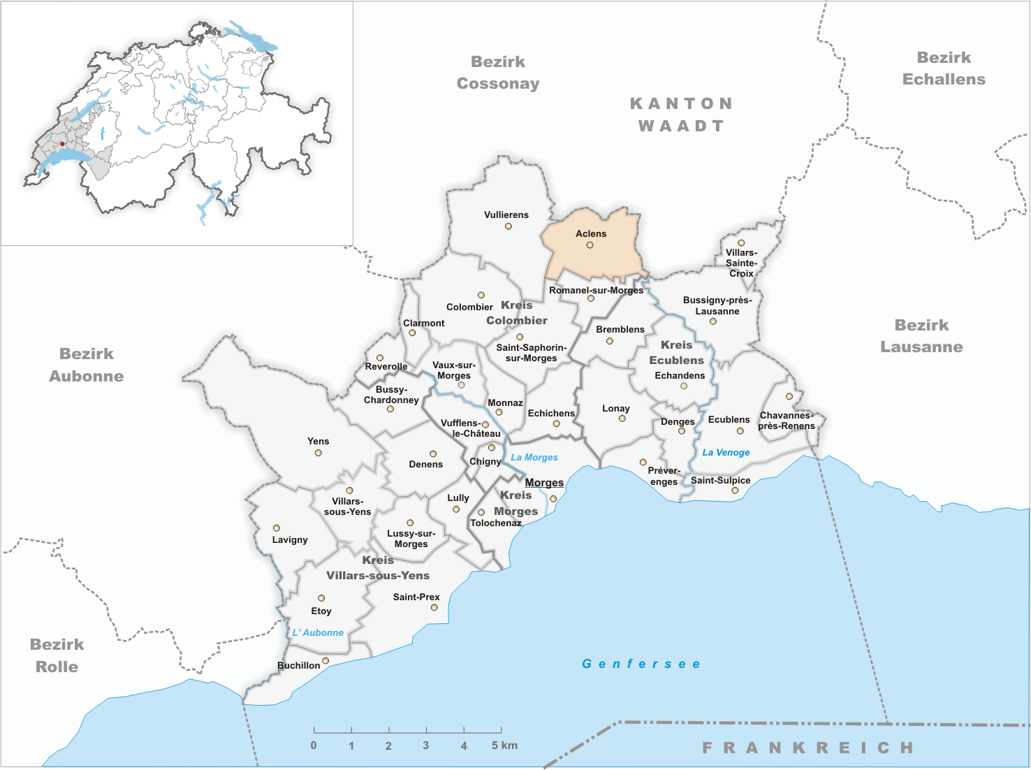 Municipality Aclens